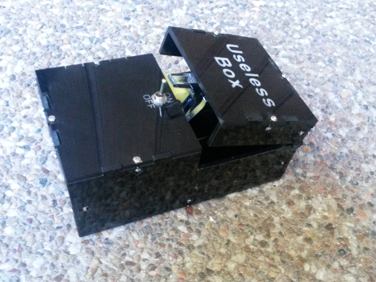 A modern commercially produced 'Useless machine'.